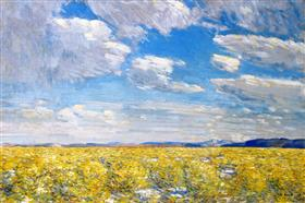 Work by Childe Hassam